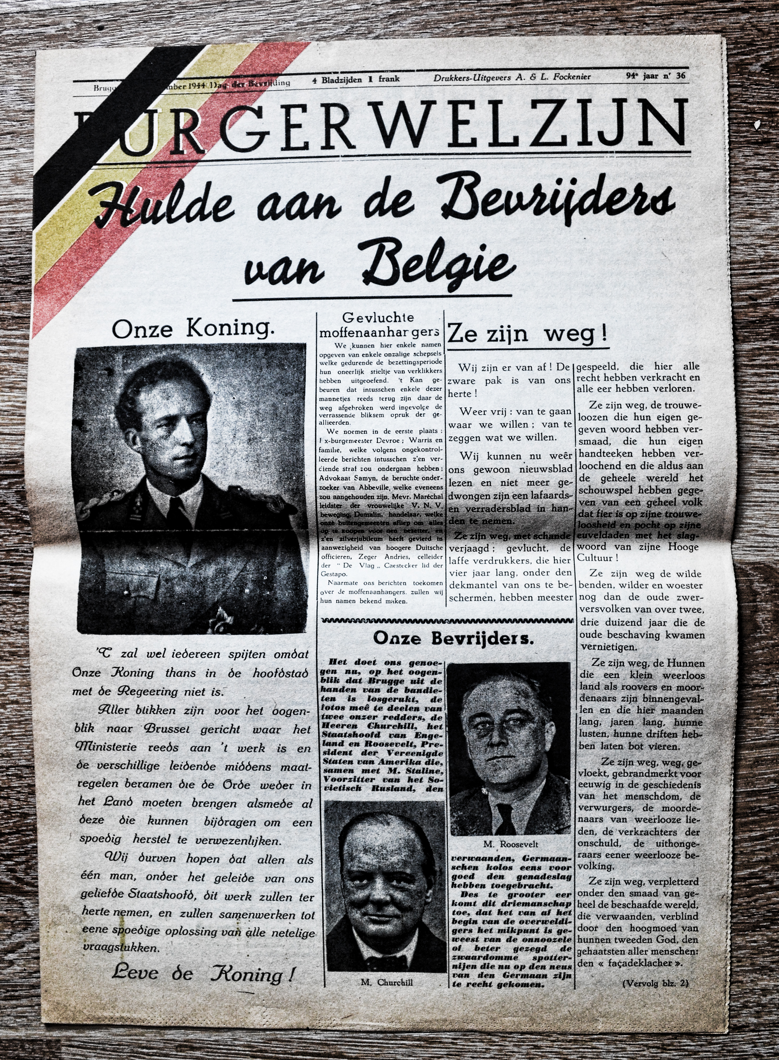 Frontpage Bruges weekly magazine "Burgerwelzijn" September 1944, With headline: "Tribute to the Liberators of Belgium". Illustrated by photos of 'Koning Leopold III' of Belgium (Top Left) Prime Minister of the United Kingdom 'Winston Churchill' (Bottom Left) and American President 'Franklin Roosevelt' (Bottom Right).